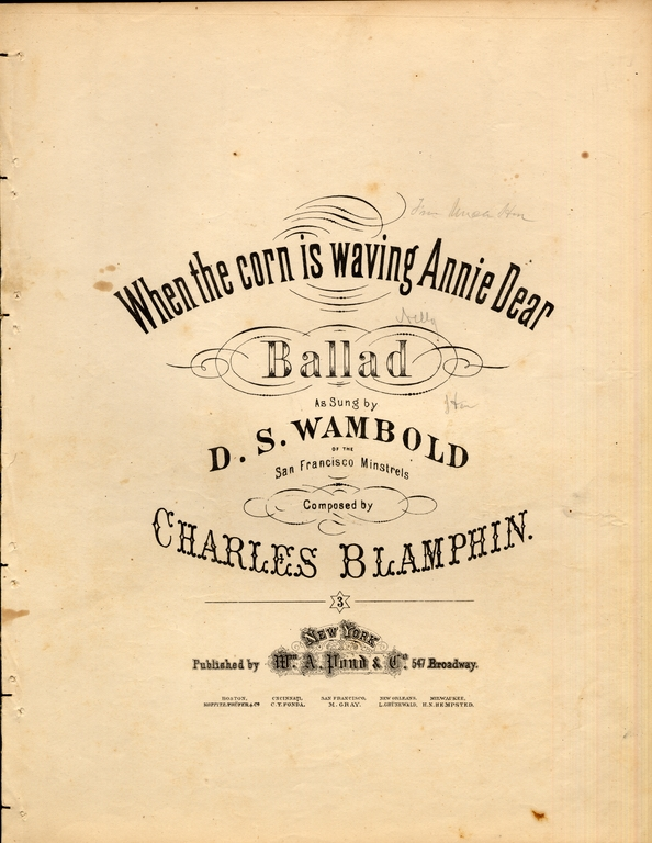 Cover of sheet music to popular 1860 song, "When the Corn is Waving, Annie Dear." Preserved in the Levy Sheet Music Collection